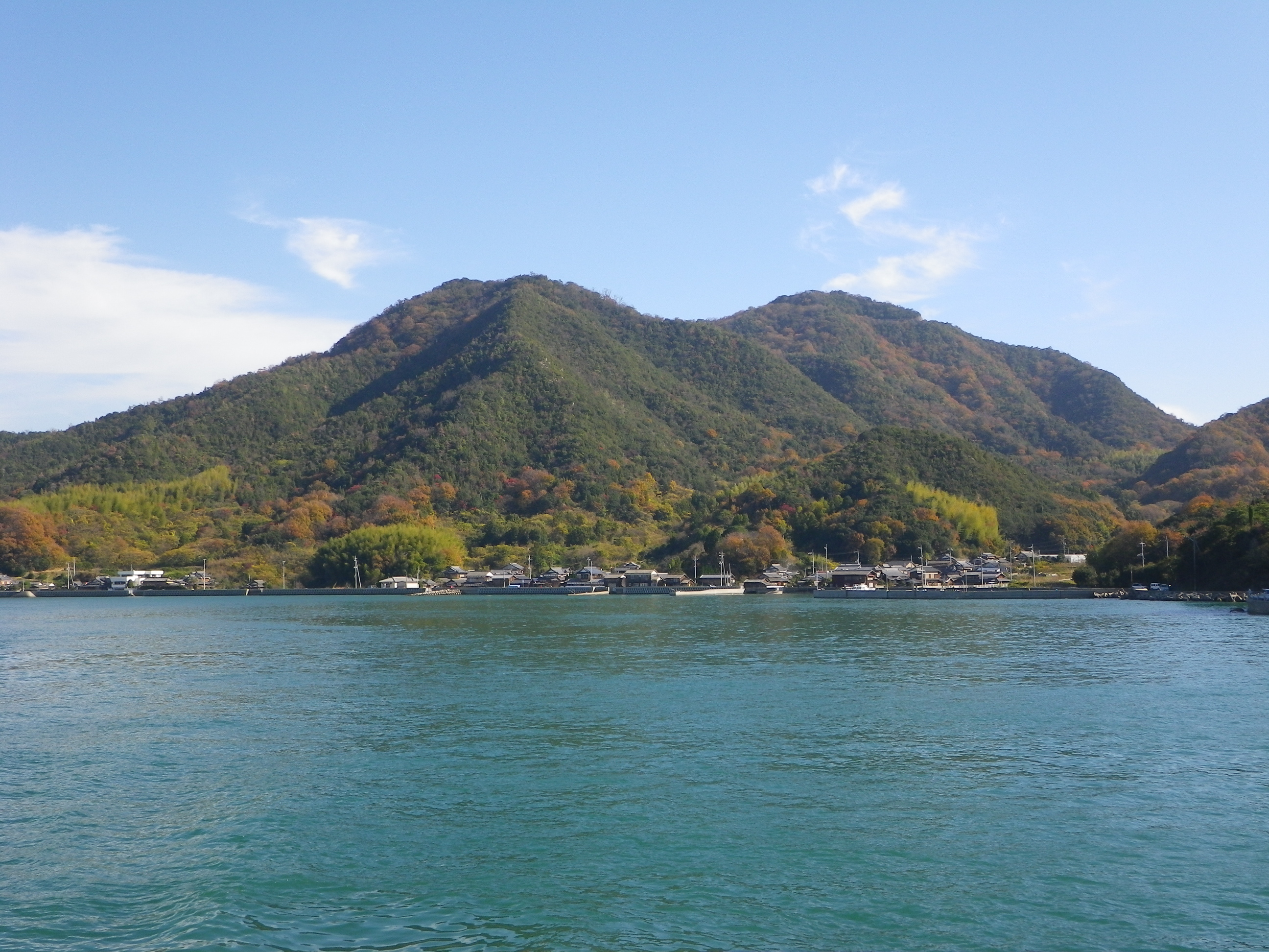 Mount Kiro (Kiro-san) as seen from the west in Oshima Island, Imabari, Ehime Prefecrure, Japan.